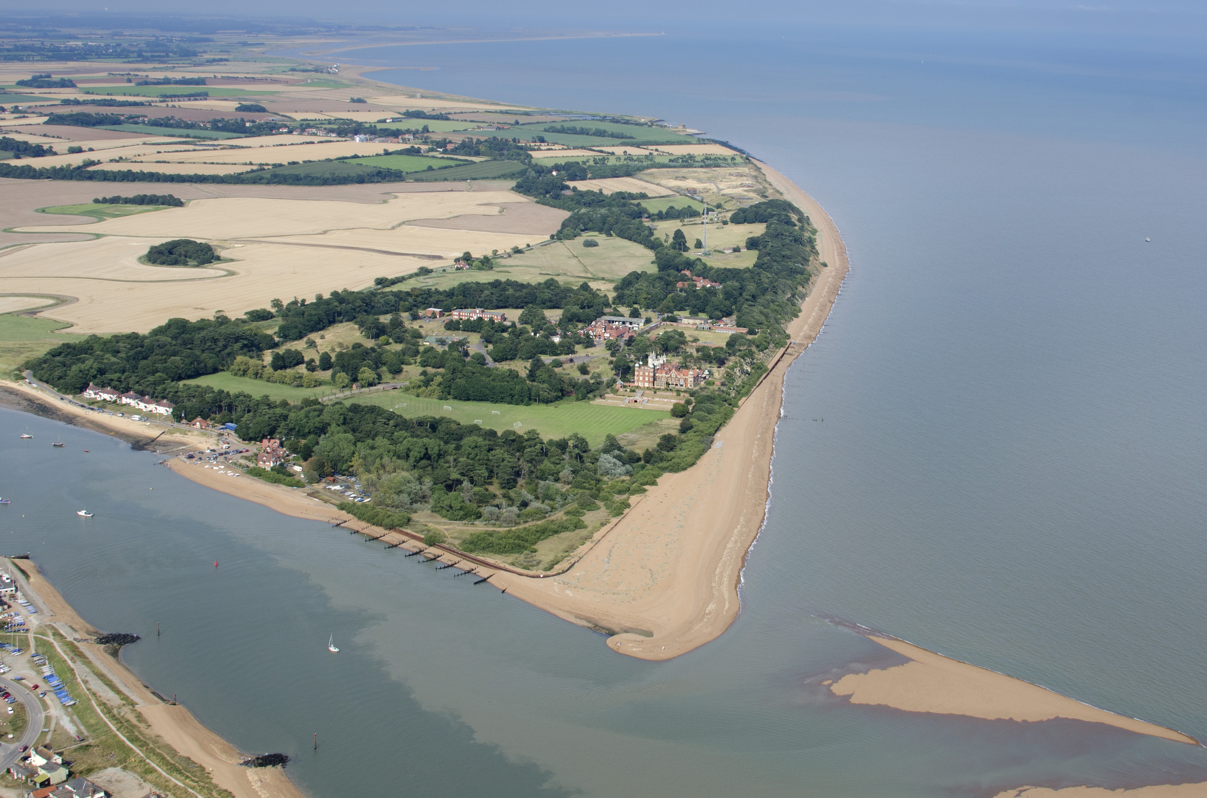 Bawdsey Manor and the mouth of the River Deben aerial. It doesn't look like it .... but Bawdsey Manor was an RAF base from 1936 until 1990. In February 1936 research scientists, including Robert Watson-Watt moved into the Manor to research and develop the use of radar for military use.